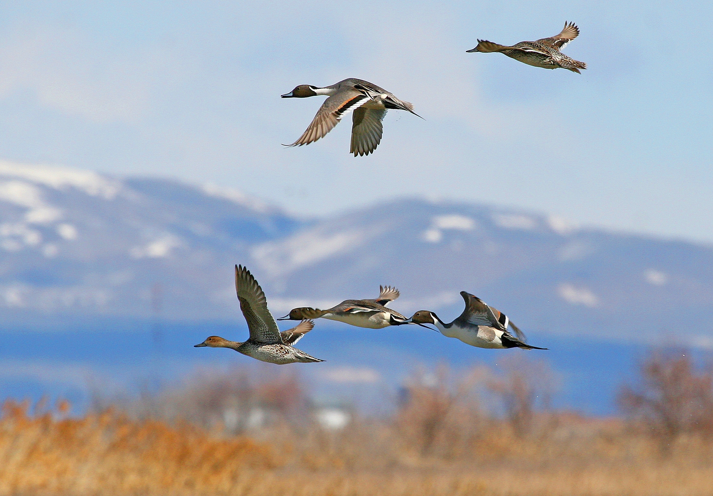 Northern Pintails in flight over Bear River Migratory Bird Refuge in Utah. Credit: J. Kelly, from 2008 photo contest.